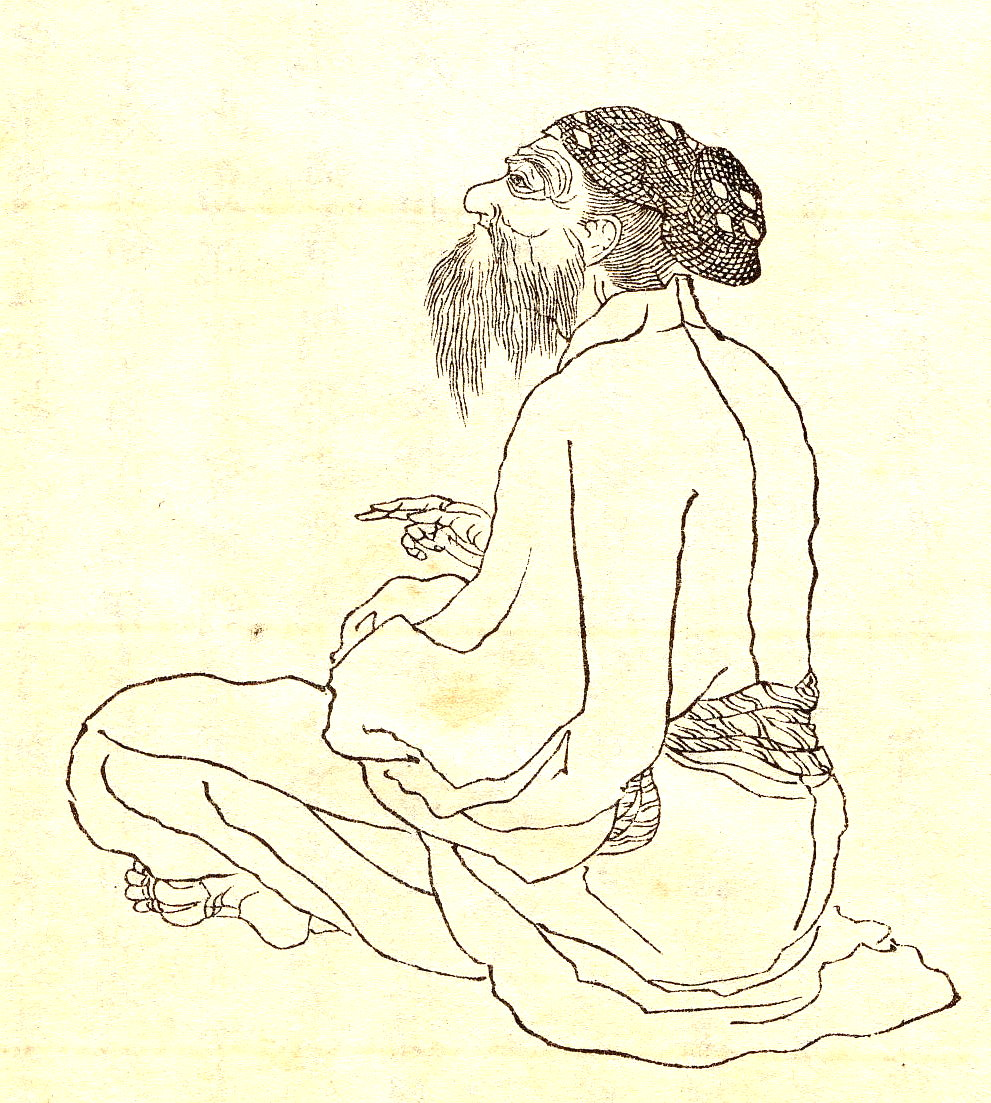 Funya no Kiyomi (文室浄三) was a member of the Imperial family in Nara era of Japan. This picture was drawn by Kikuchi Yosai（菊池容斎） who was a painter in Japan.